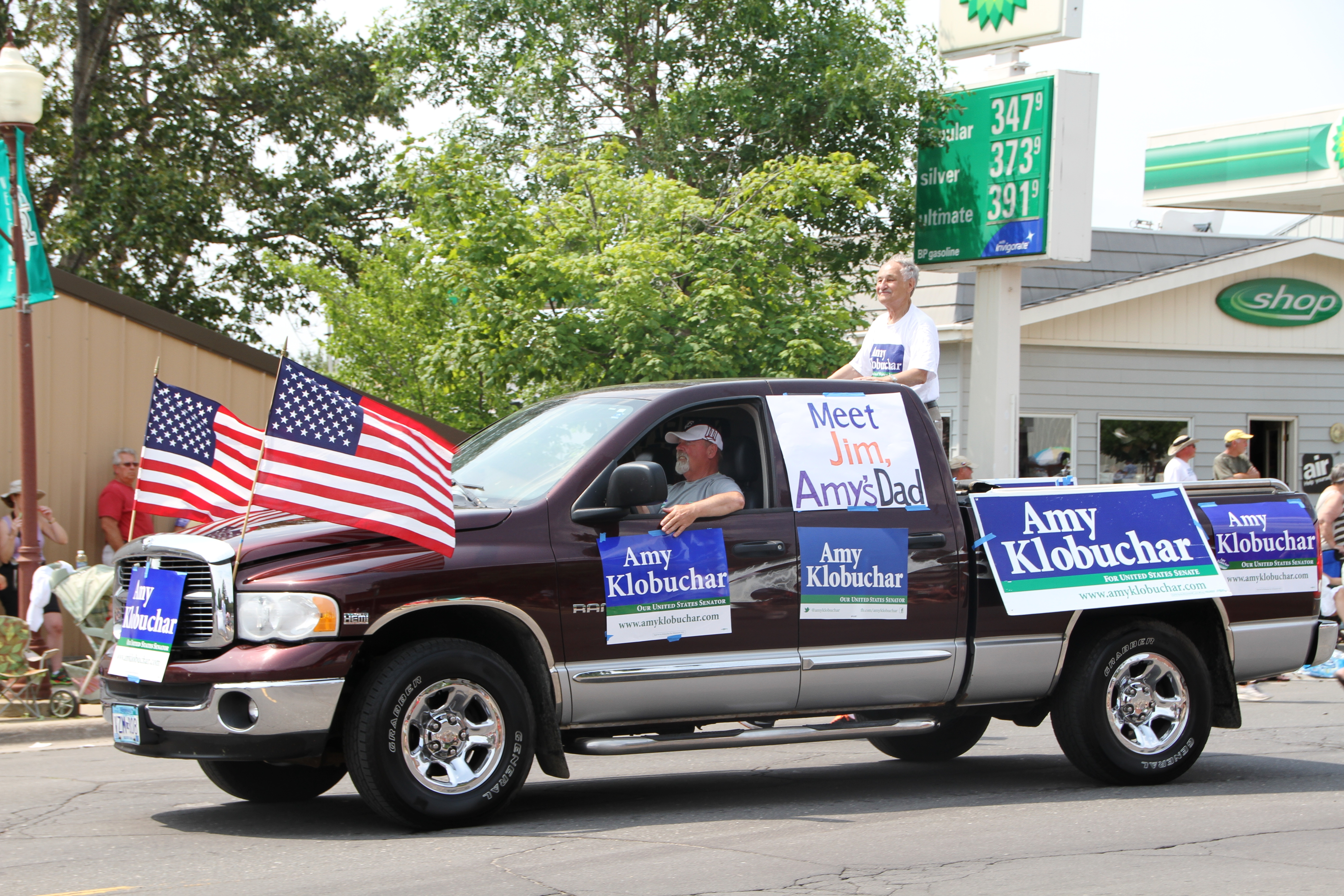 Jim Klobuchar and supporters, campaigning for Jim's daughter Amy Klobuchar, in Tower, St Louis county, Minnesota. July 4, 2012.